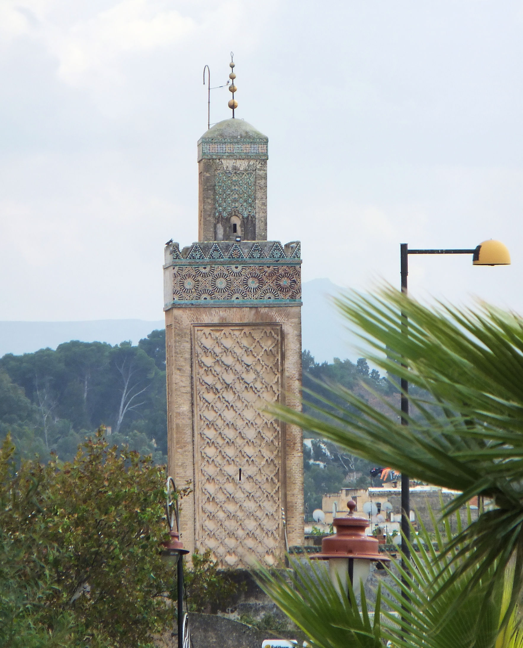 Minaret of the Great Mosque of Fes el-Jdid, seen from afar.